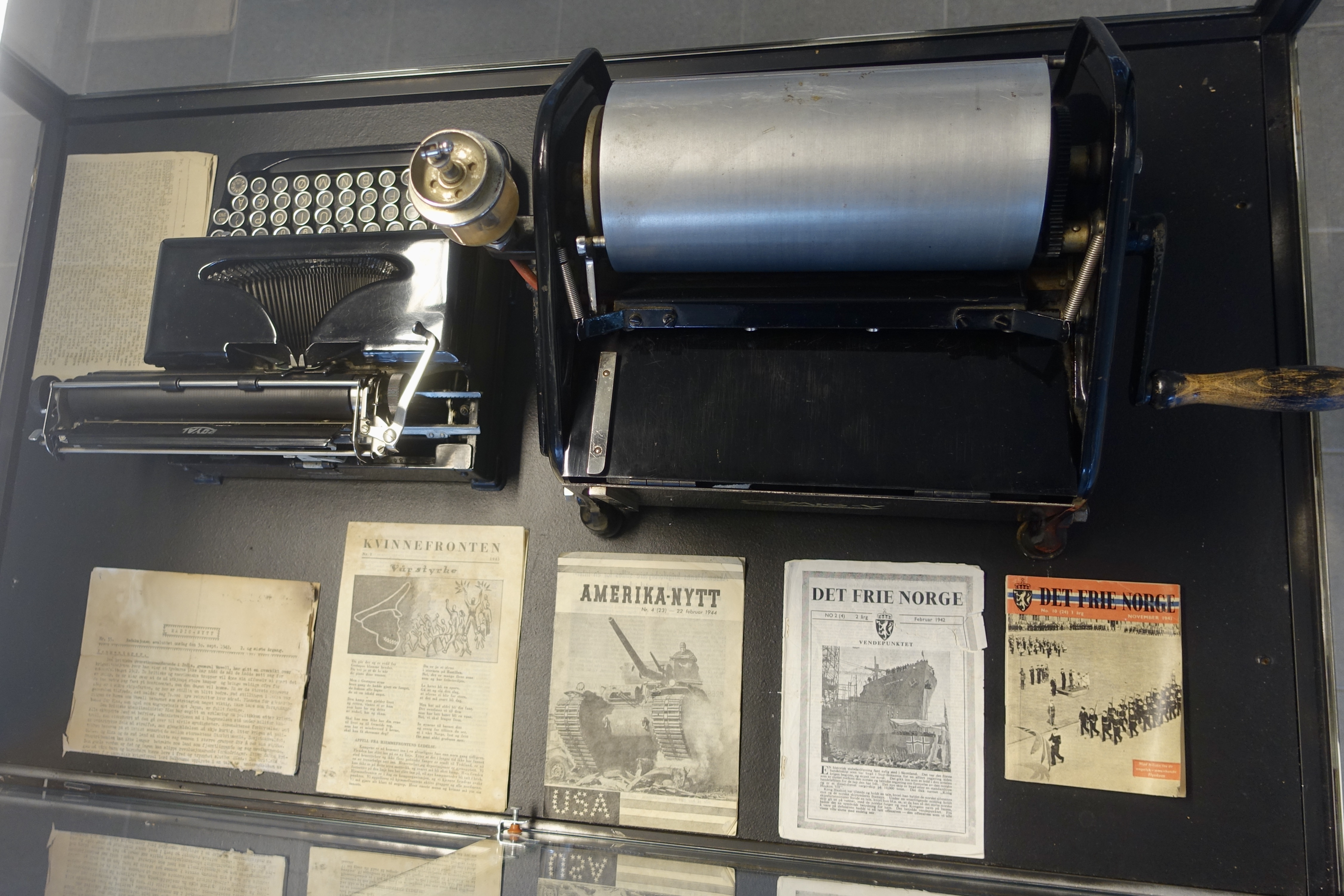 Underground media in German-occupied Norway during the Second World War 1940–1945. Photo taken on January 21st, 2020 at Slottsfjellsmuseet, a local history museum in Tønsberg in Vestfold og Telemark County, Norway.